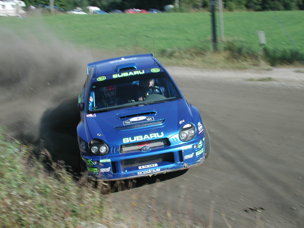 World Rally Championship WRC Rally Finland 2001